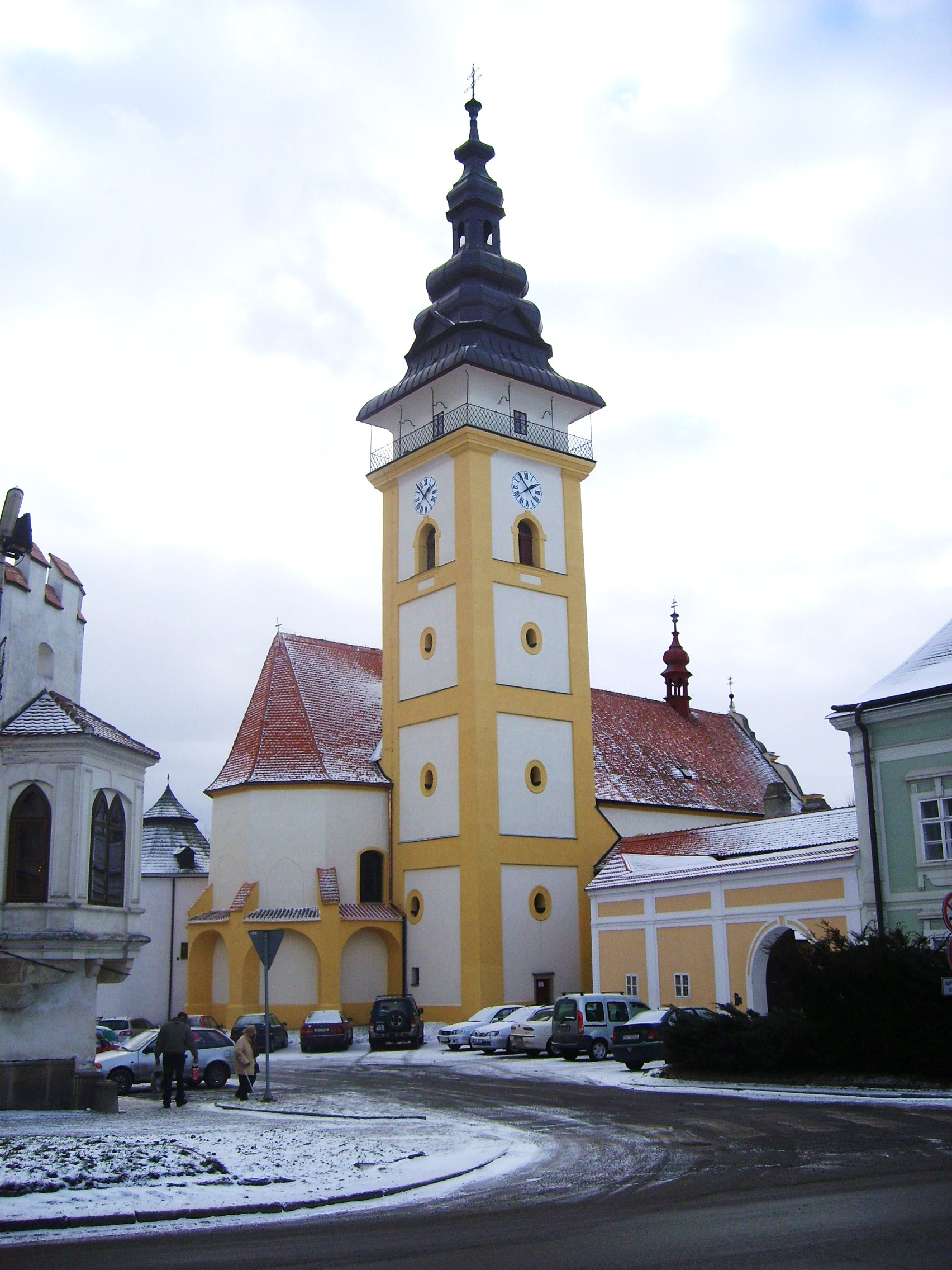 The tower of St. Giles´ Church (kostel sv. Jiljí) in Moravské Budějovice, Czech Republic. See the whole church from the front.